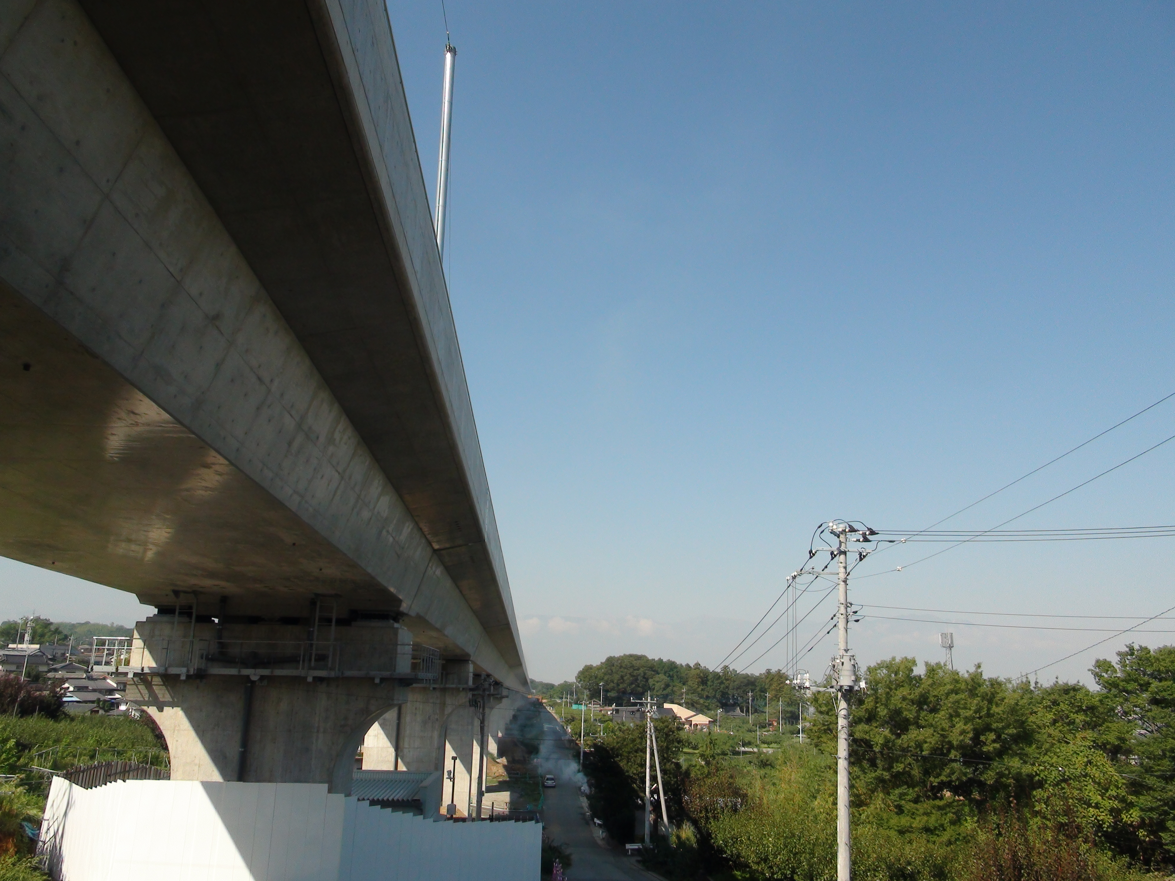 Chuo Shinkansen Yamanashi test track west end viaducts.Sept.2013